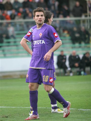 ACF Fiorentina player, Adrian Mutu